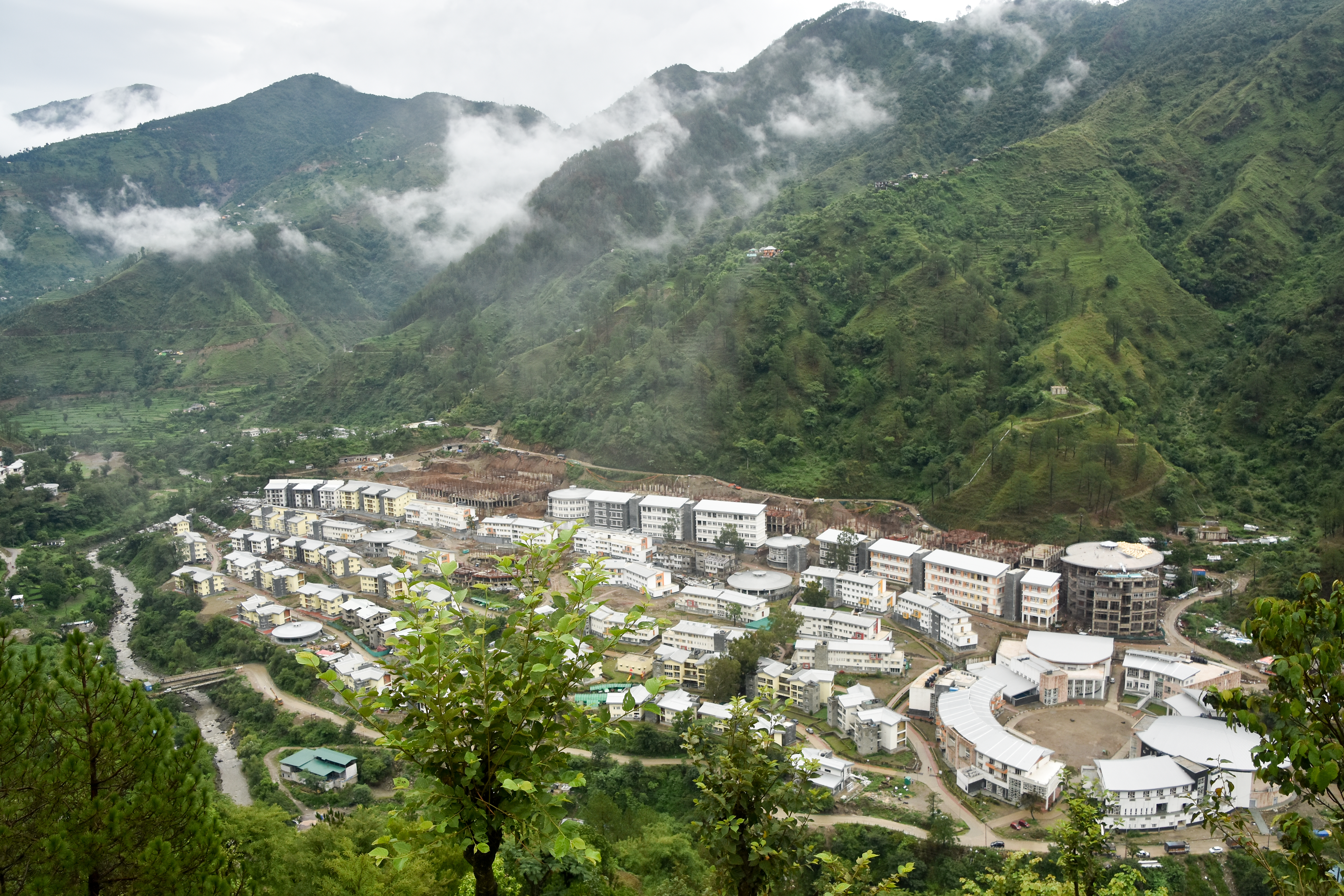 North Campus with the Village Square at the right. Residential (front), hostel (middle) and academic (rear) spines running from the Village Square towards the left.